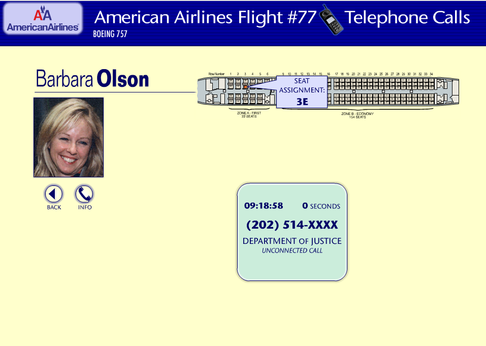 Summary of phone calls made by Barbara Olson from American Airlines Flight 77 on September 11, 2001